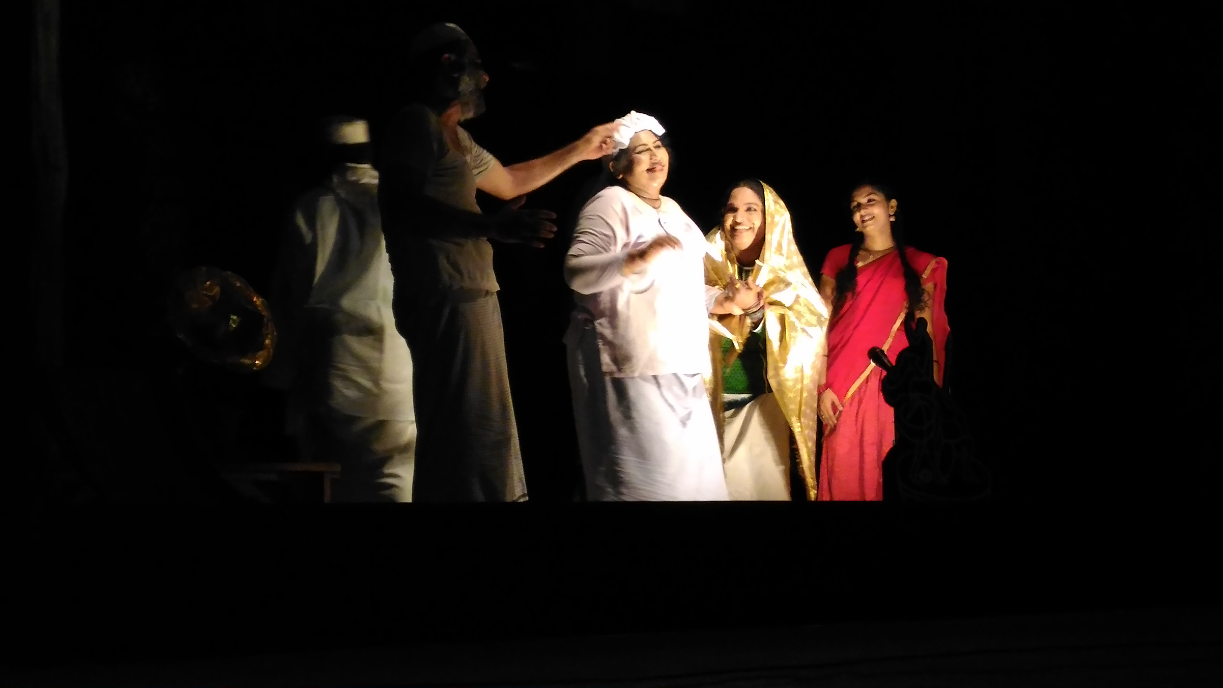 A scene from the drama Ntuppuppkoranentarnnu_basheer